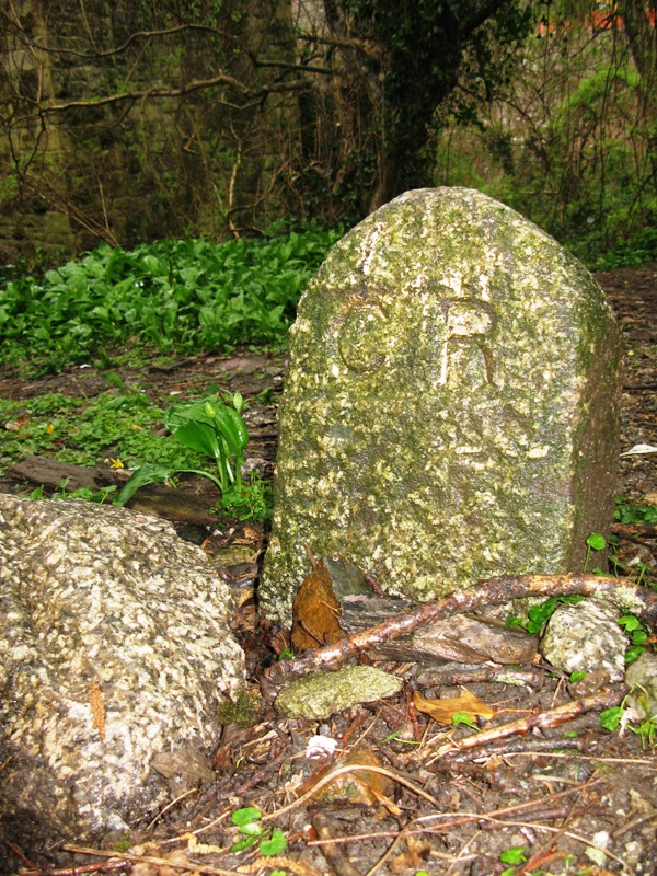 A granite boundary stone marking the edge of the former Cornwall Railway Company's property near Penryn, Cornwall, United Kingdom.